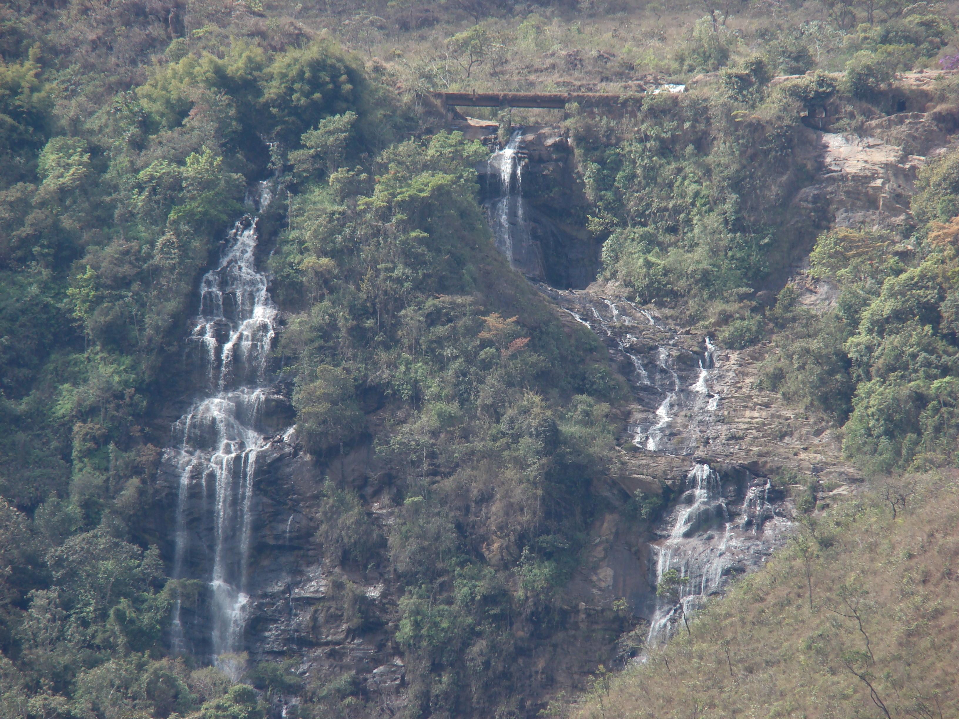 indio